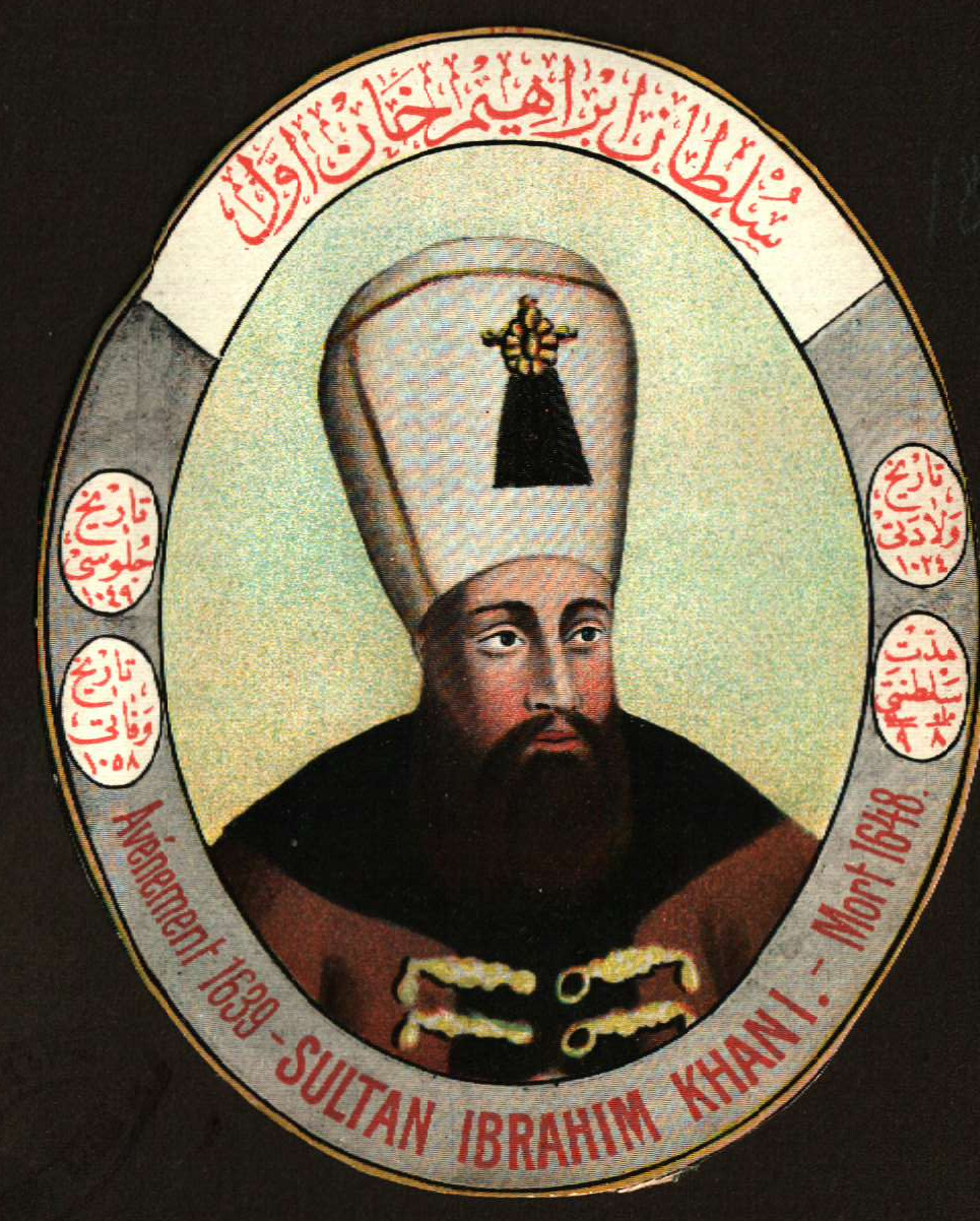 Ibrahim